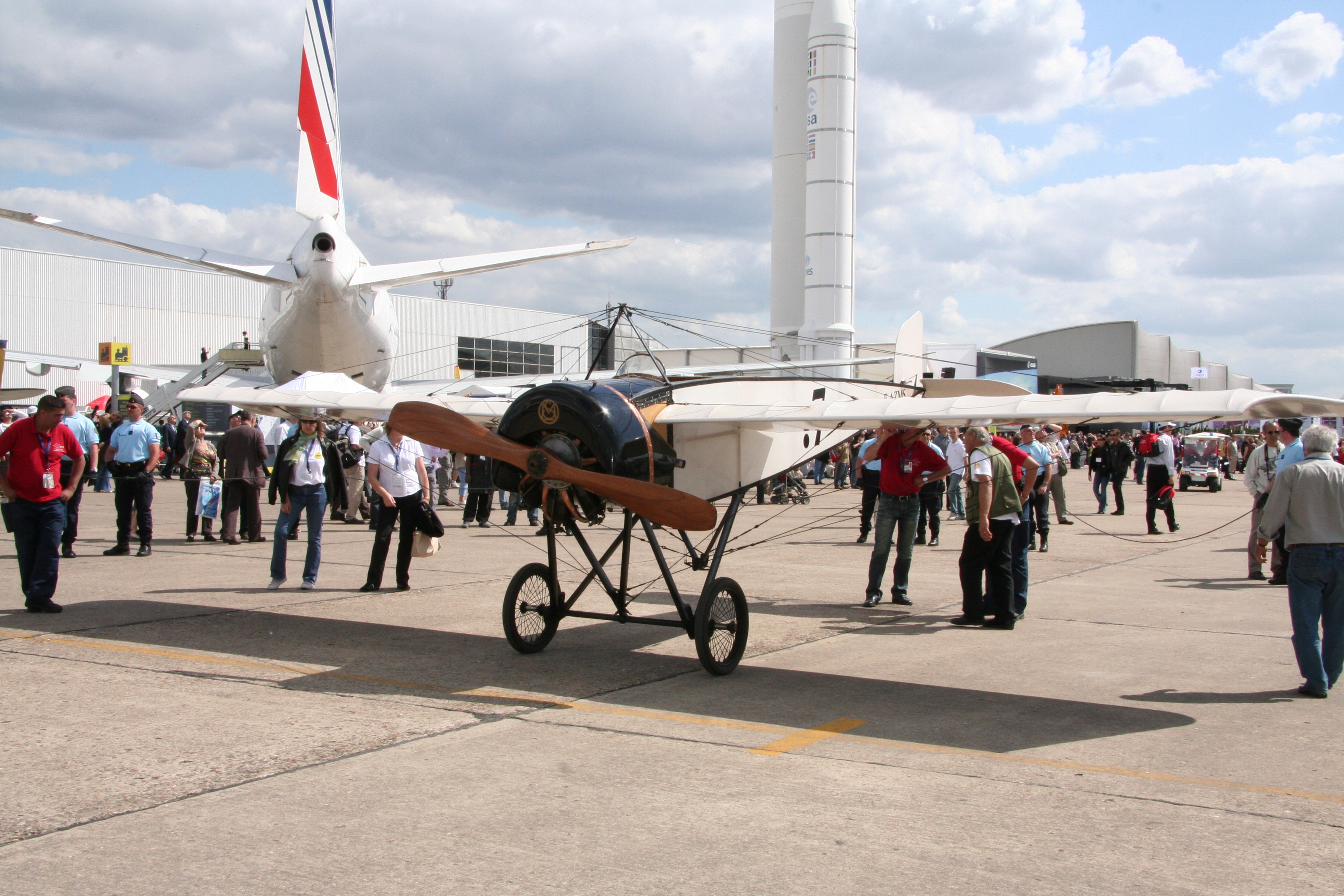 Morane-Saulnier H - Paris Air Show 2009